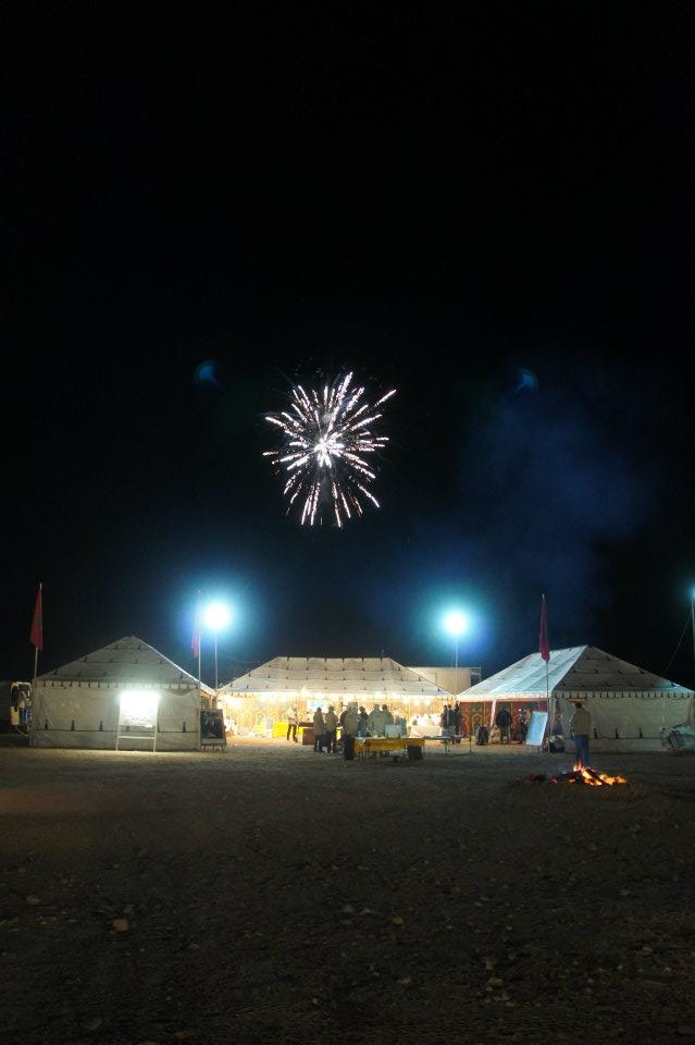 Africa Eco Race 2012